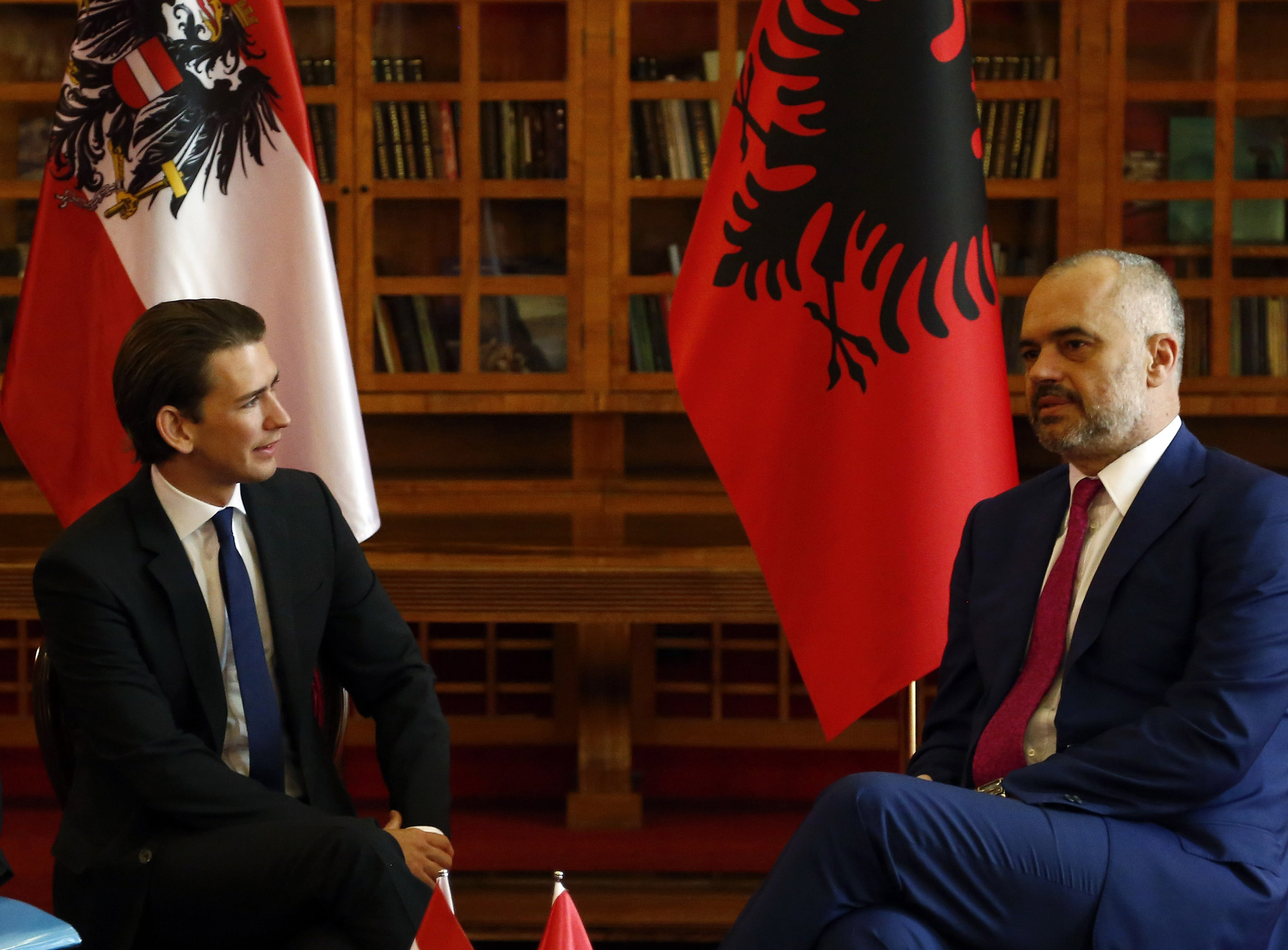 Visit to Albania: Austrian Foreign Minister Sebastian Kurz and Austrian Justice Minister Wolfgang Brandstetter meet the Albanian Prime Minister Edi Rama in Tirana, Albania. June 17, 2014.